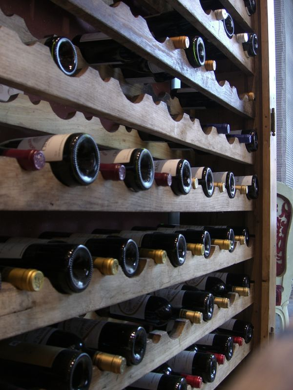 This is but one of the racks of wine in the restaurant. There were three of these in the room we were in. I think they were mostly French wine. Bistro Vue 430 Little Collins St Melbourne 3000 (03) 9691 3838